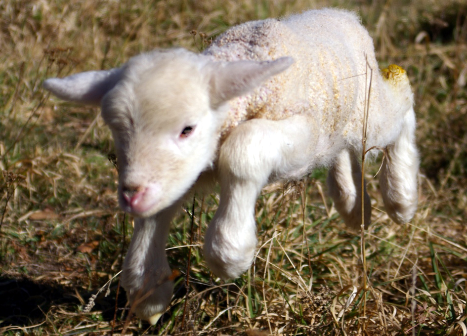 Edited version of commons image Image:Lamb first steps.jpg